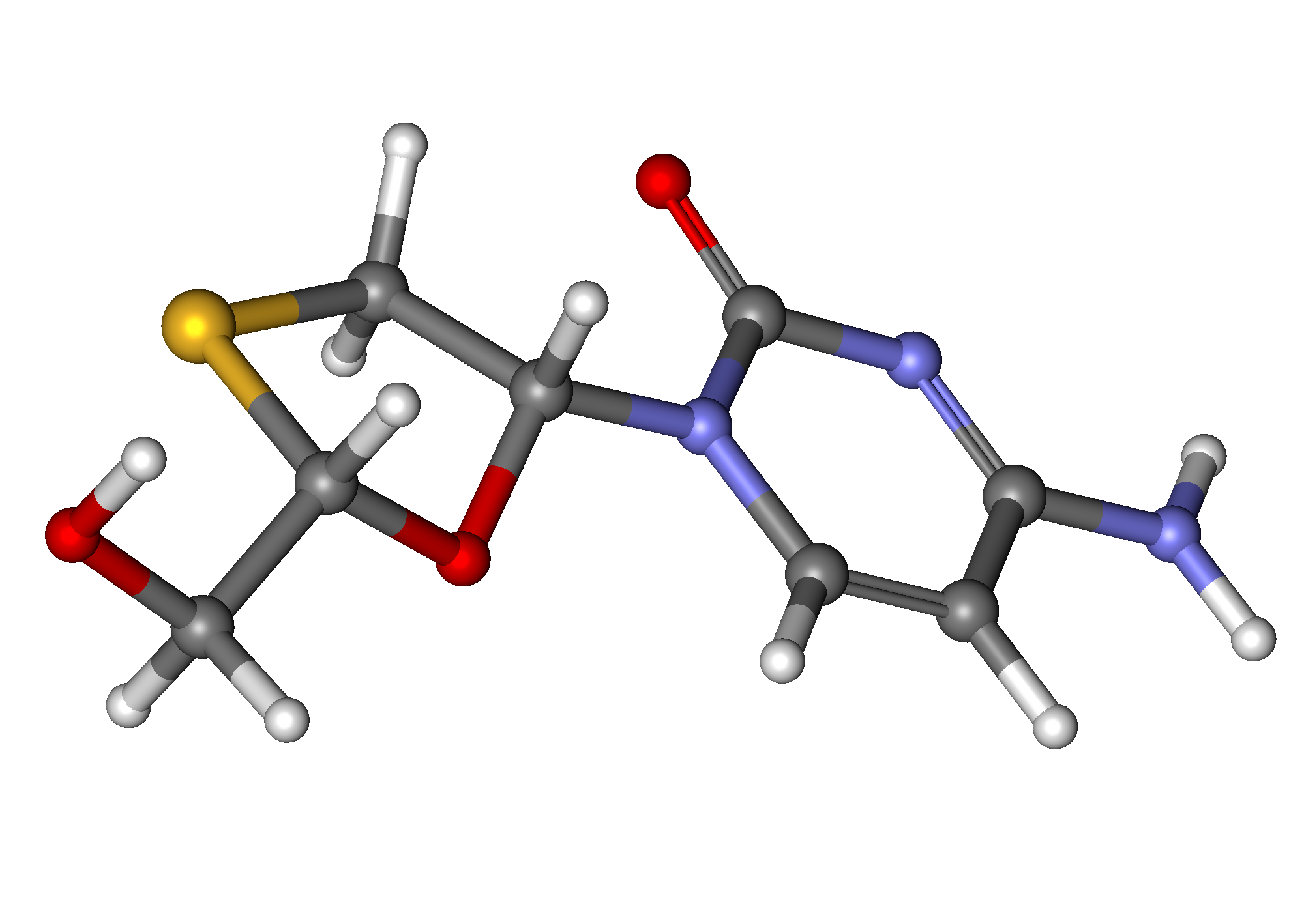 Ball-and-stick model of lamivudine molecule. The structure is taken from ChemSpider. ID 66068